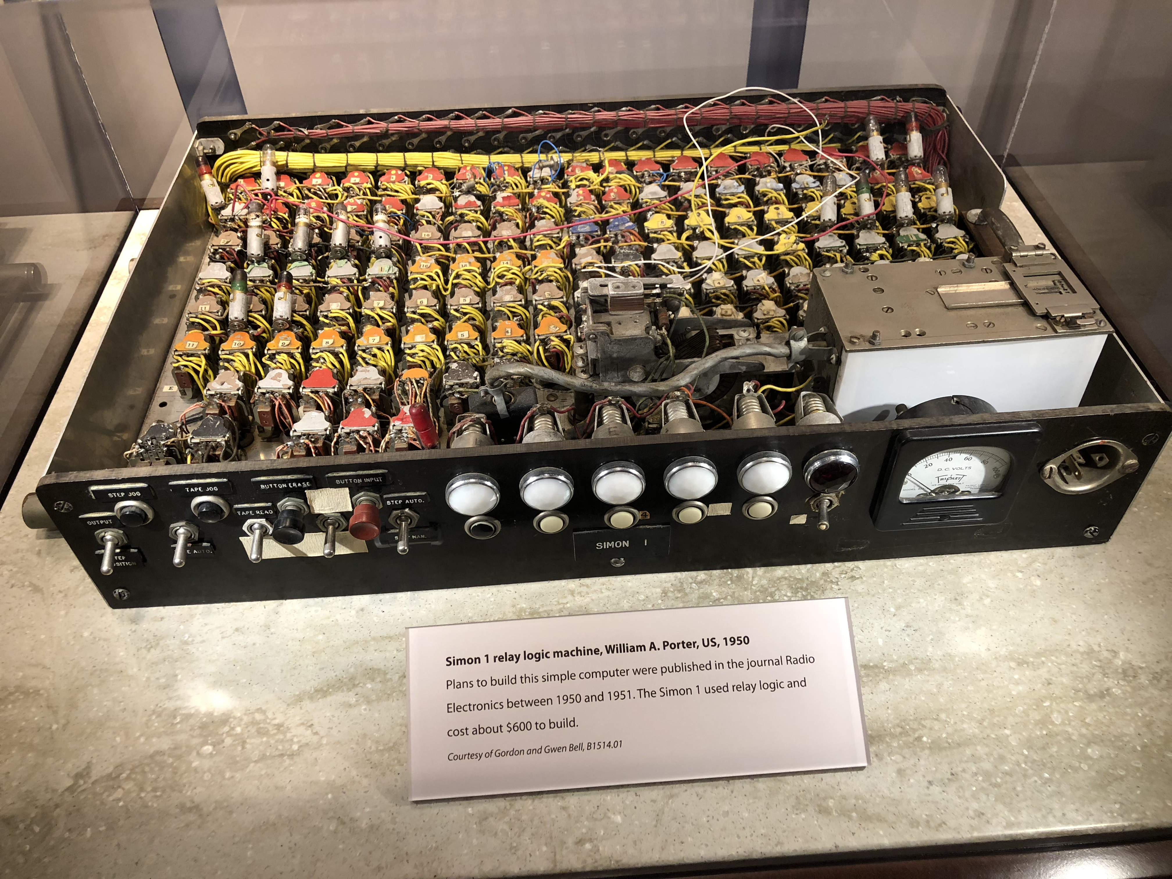 Simon 1 relay logic machine at the Computer History Museum